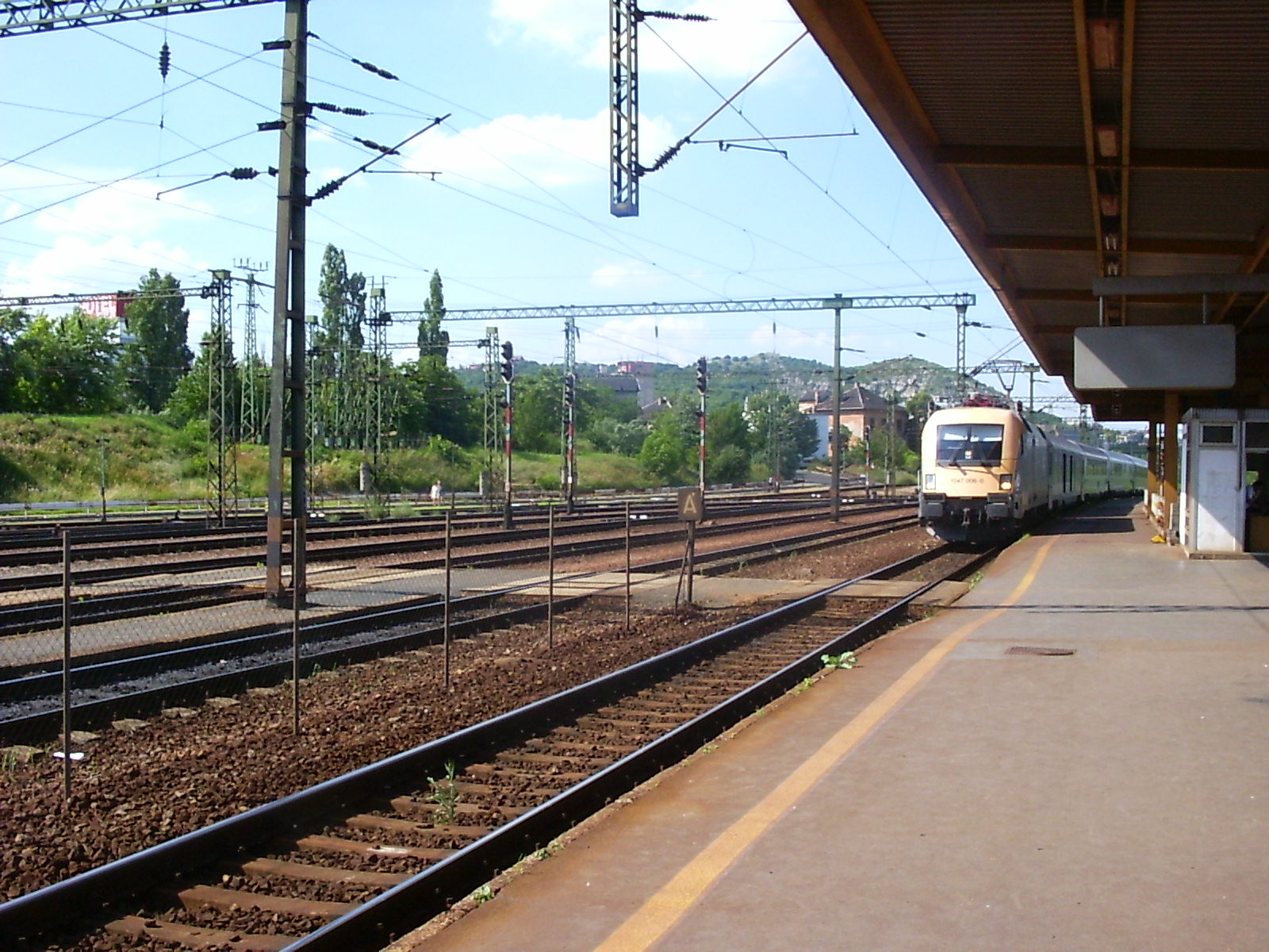 Derouted Avala Eurocity (direction Bratislava-Prague) in Budapest-Kelenföld